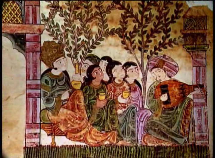 The Poetry Council (Arabic: مجلس الشعر; Majlis al-Shi'r) at the court of Al-Hakam II, Caliph of Córdoba. The person on the right is playing the oud.